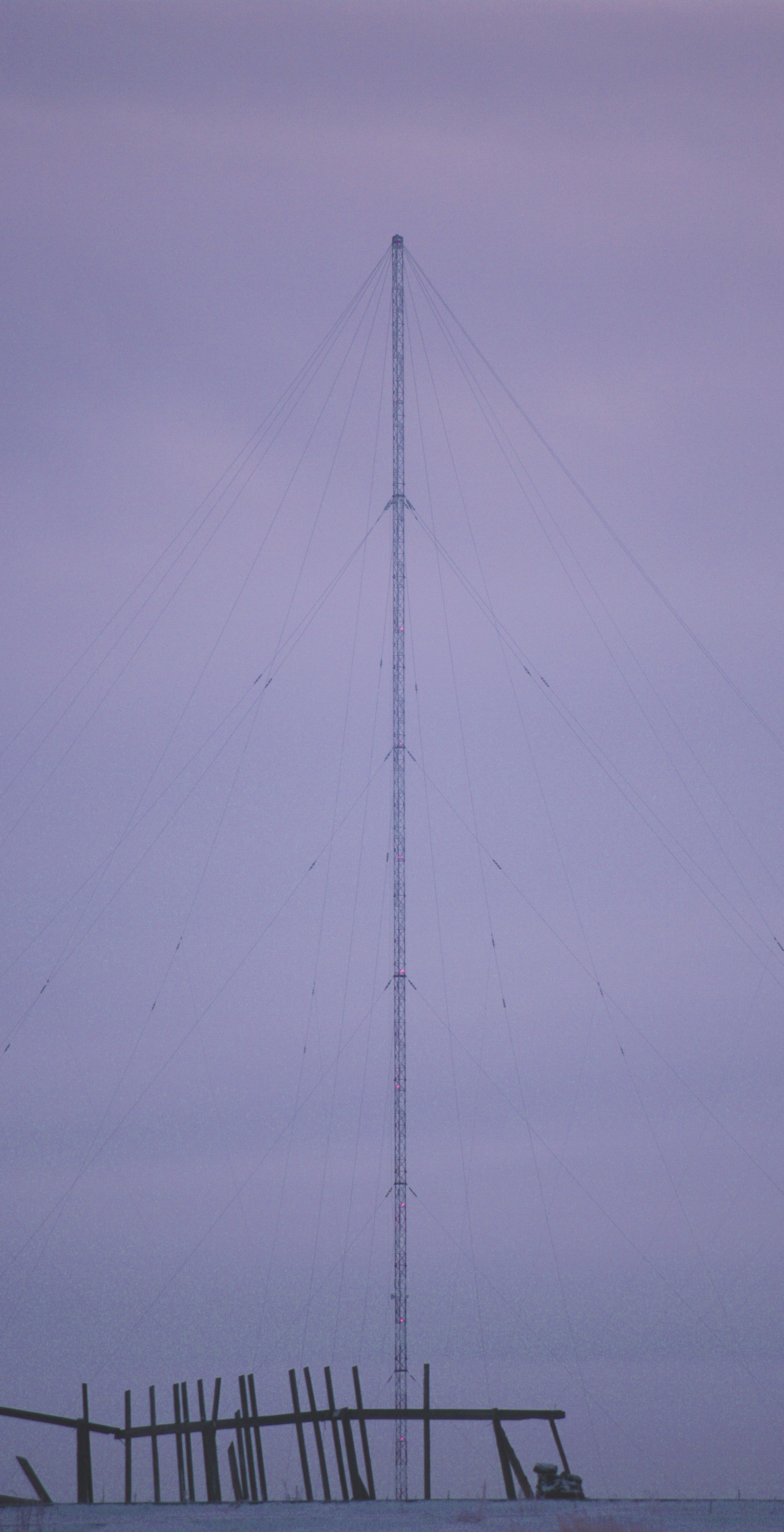 Radio mast of Boganida.